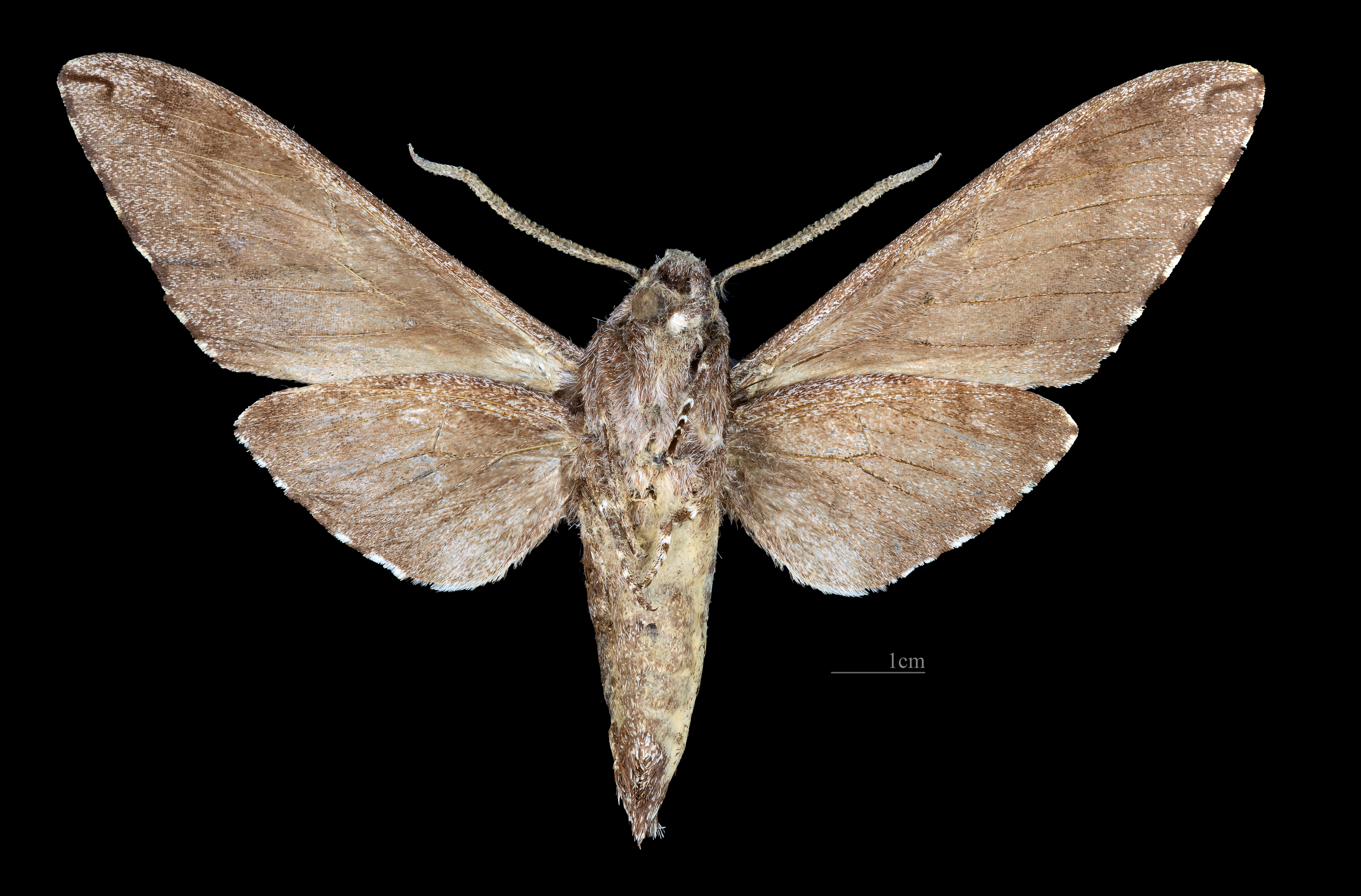 Sphinx formosana - △ Ventral side Collection of the Mathematician Laurent Schwartz